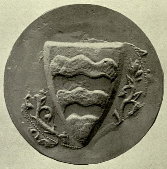 Seal of Edmund Hastings, 1st Baron Hastings (post 1262-circa 1314) "of Inchmahome" (anciently Inchmacholmok), Perthshire, Scotland. On 29 December 1299 he was summoned to Parliament as "Lord Hastings". Shortly after 1292 he married Isabella Comyn, widow of William Comyn of Badenoch and daughter of Walter Comyn, Earl of Menteith in right of his wife. He was at the Siege of Caerlaverock Castle in June 1300, together with his brother, when their armorials were blazoned in verse in the Roll of Caerlaverock. He signed and sealed (with this seal) the Barons' Letter of 1301 to the pope, in which he is called Dominus de Enchemehelmock ("Lord of Inchmacholmok", the chief castle of the Earldom of Menteith) with his seal bearing the legend S(igillum): Edmundi: Hasting: Comitatu: Menetei[2] ("seal of Edmund Hastings Earl of Menteith"). The seal shows not his paternal arms of Hastings, but rather the arms of Muireadhach I, Earl of Menteith (d. 1213), the Earl at the start of the age of heraldry (c.1200-1215): Barry wavy of six argent and azure (GEC Complete Peerage, Vol.VI, p.383, note i) (given elsewhere as or and gules). He died without issue when the title became extinct.